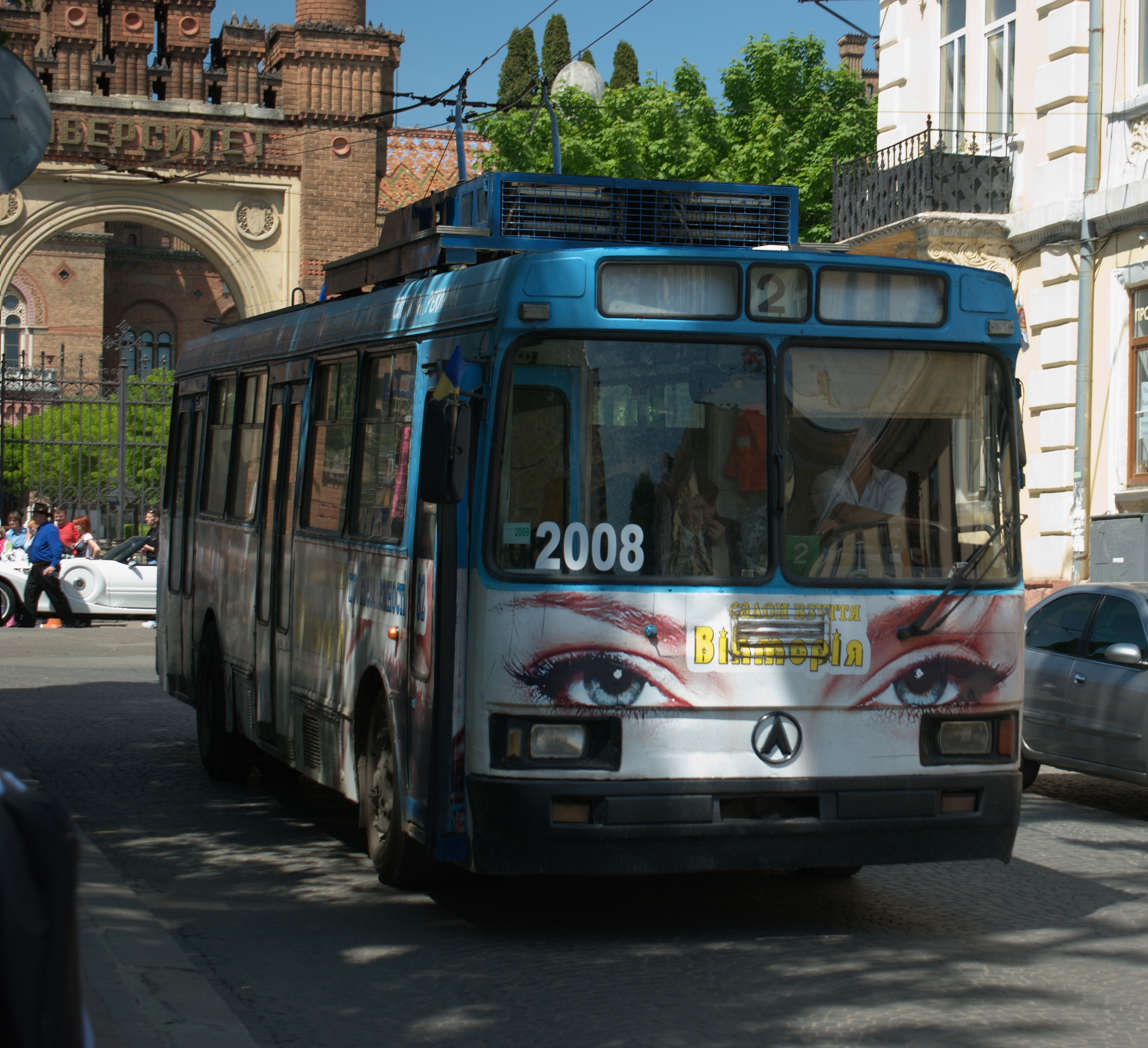 LAZ 52522 Trolleybus in Chernivtsi, University street